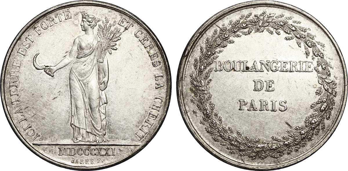 Jeton de la corporation des boulangers;1821